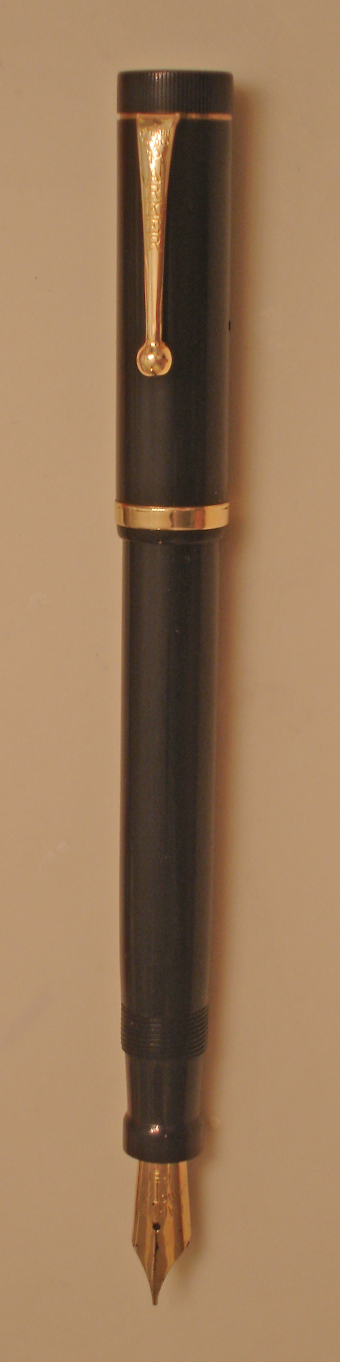 Parker Duofold Senior in black hard rubber, ca. 1924